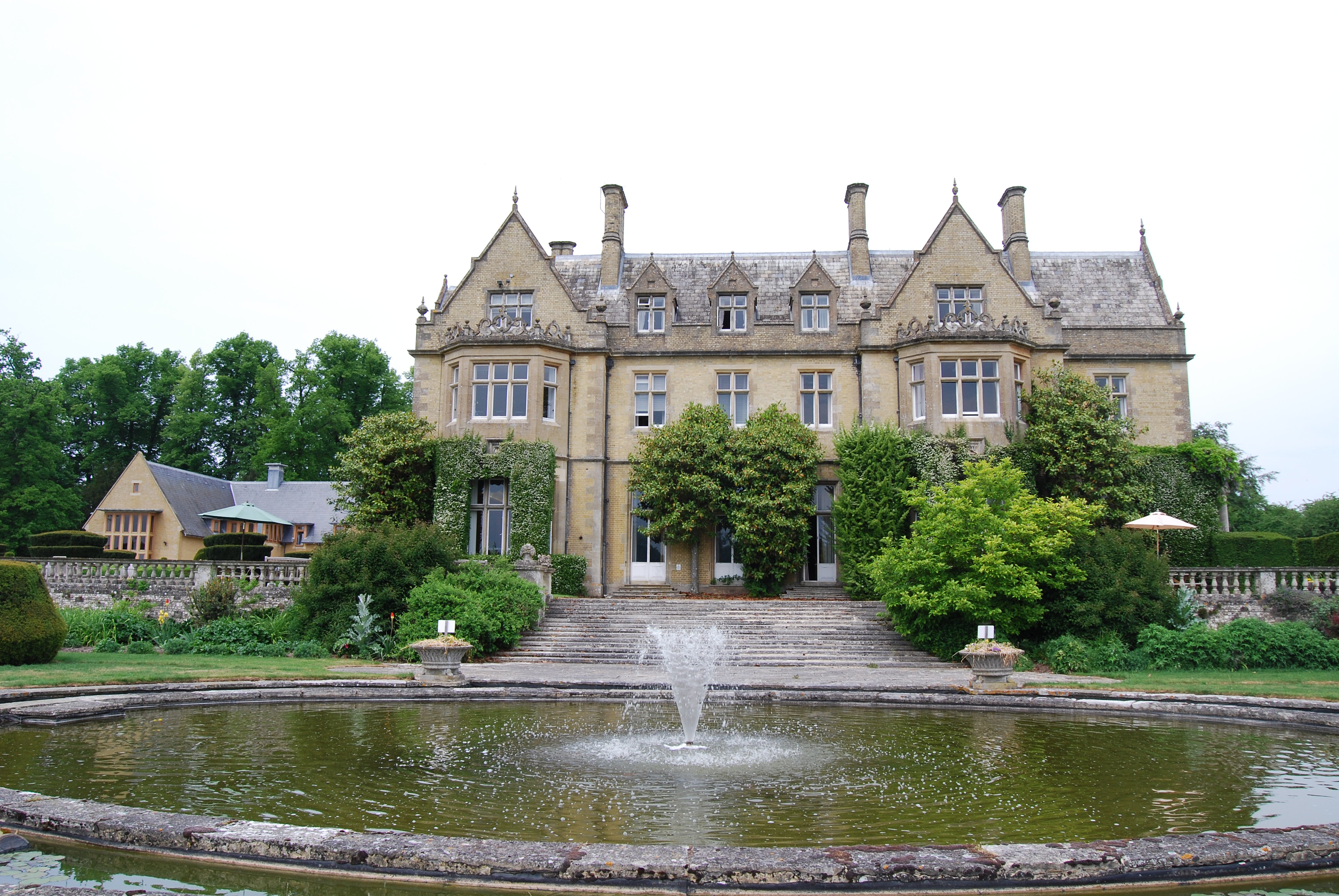 Front view of Armed Forces Chaplaincy Centre, Amport House, Amport, Andover. Also at Panoramio